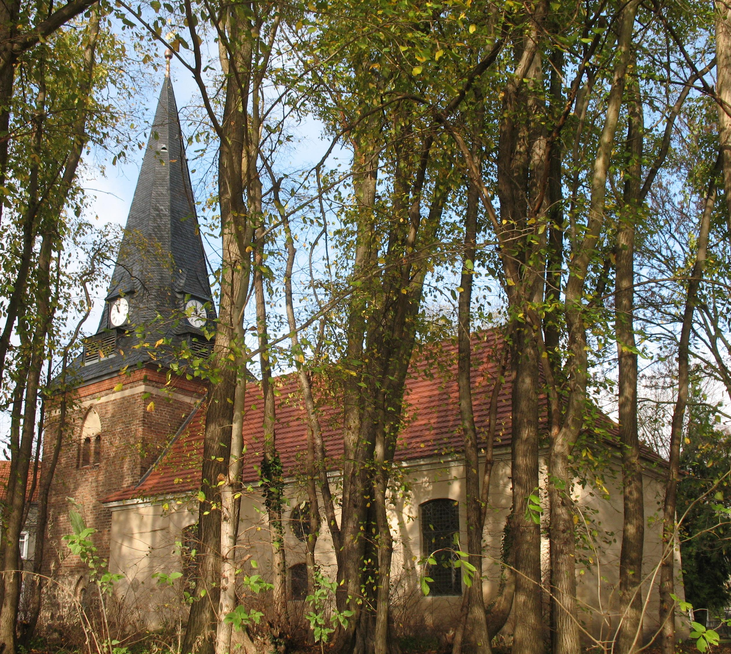 Church in Hennigsdorf-Nieder Neuendorf in Brandenburg, Germany